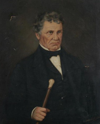 William Camp Gildersleeve, Oil on canvas. n.a.